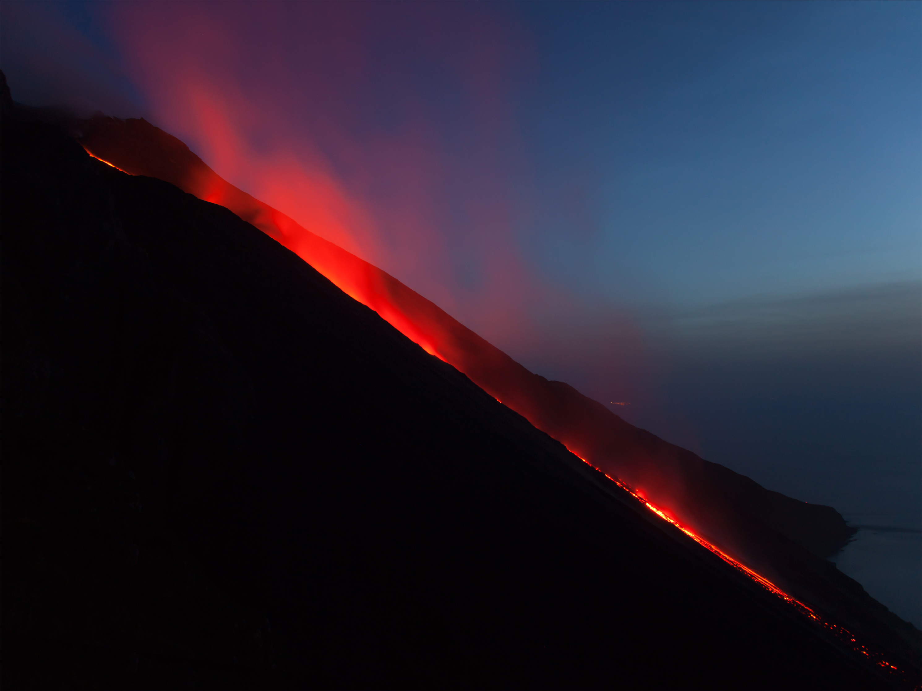 Stromboli, the stream of fire after sunset